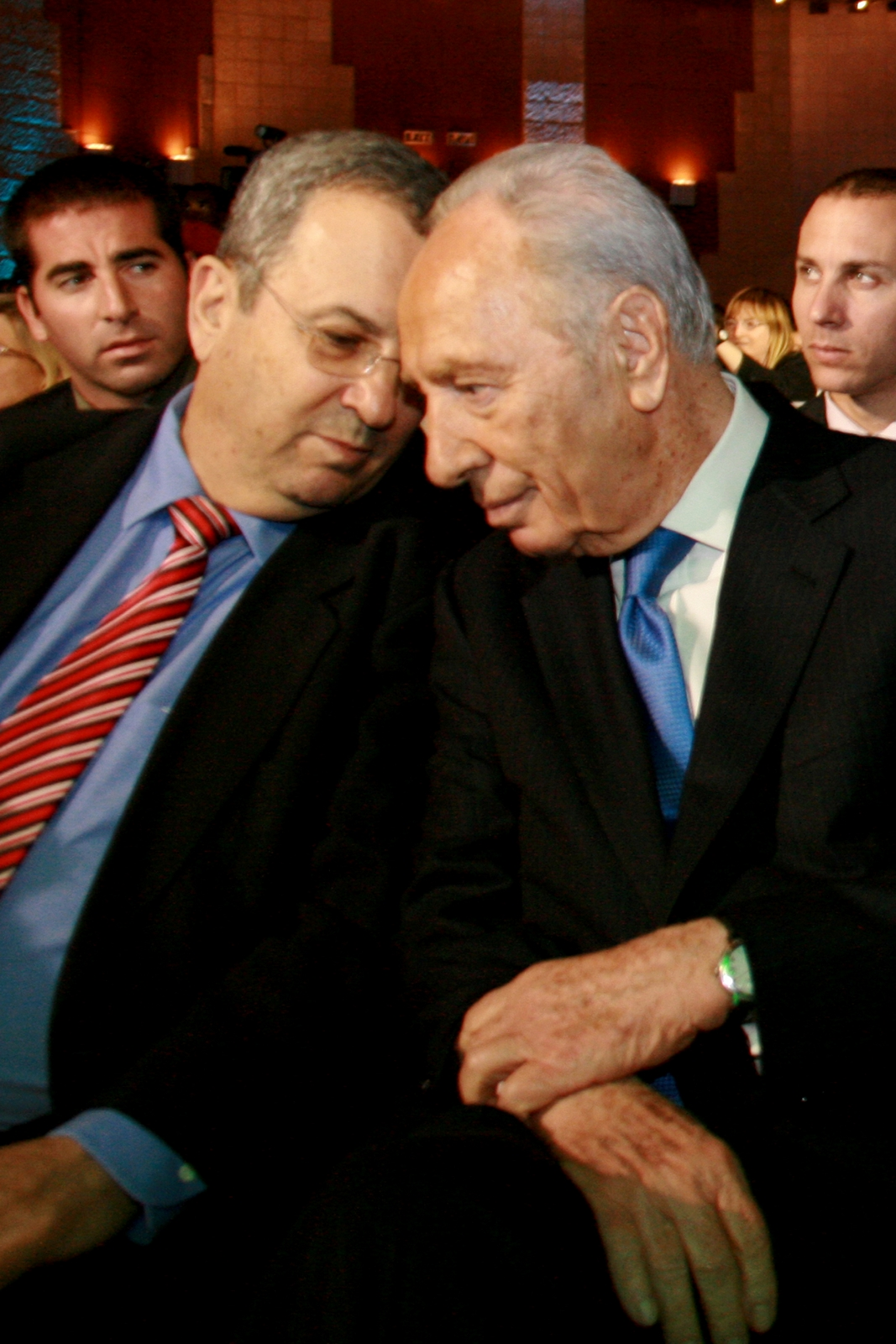 Minister of Defense Ehud Barak and President Of Israel Shimon Peres